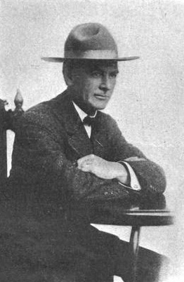 Photographic image of American writer Earl Alonzo Brininstool (1870-1957). From National Magazine, Volume 41 (1915), p. 282.